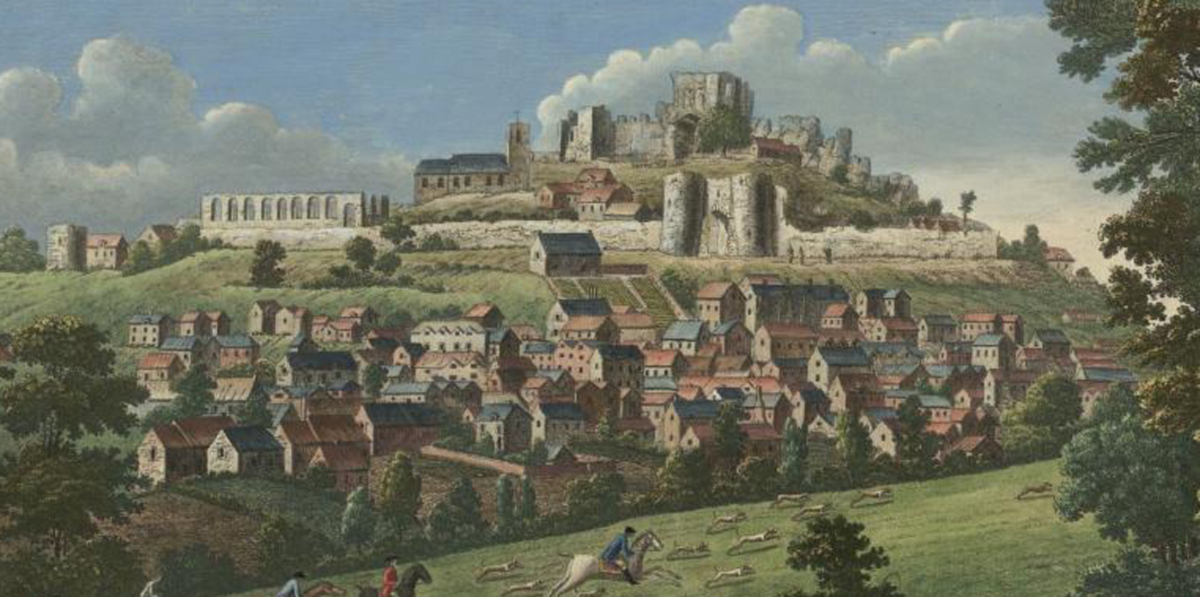 Detail of a hunting scene, horses and hounds in full chase.